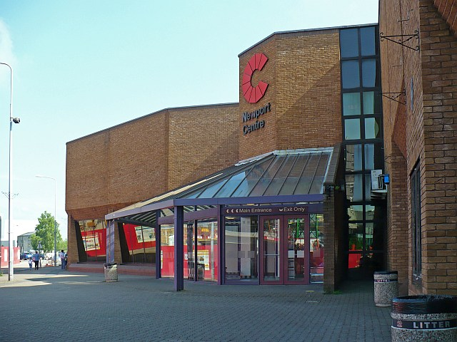 Newport Leisure Centre The windows reflect adjacent rebuilding works.